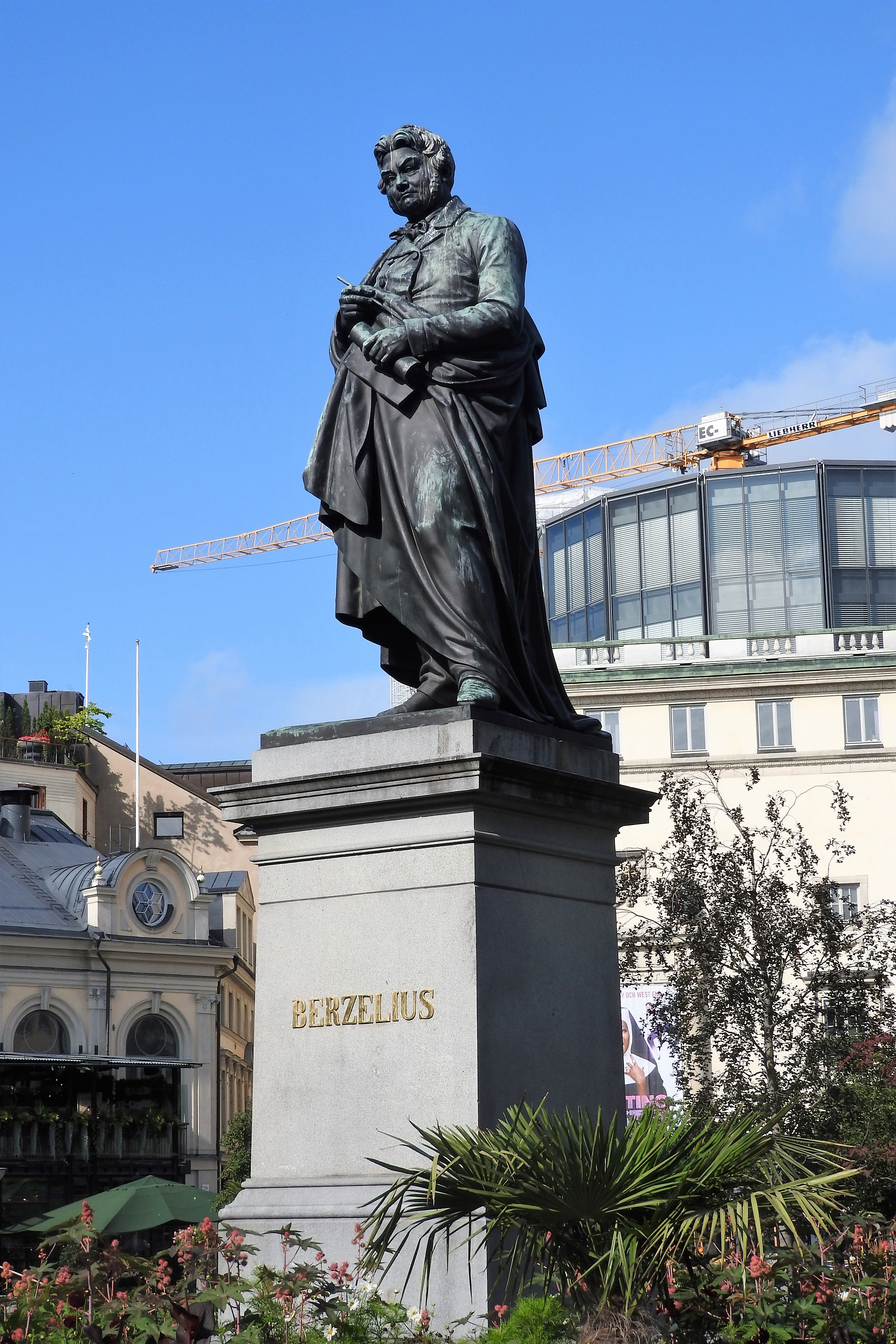 Centerpiece of park in Stockholm, on a sunny afternoon; clock is wrong due to time zone